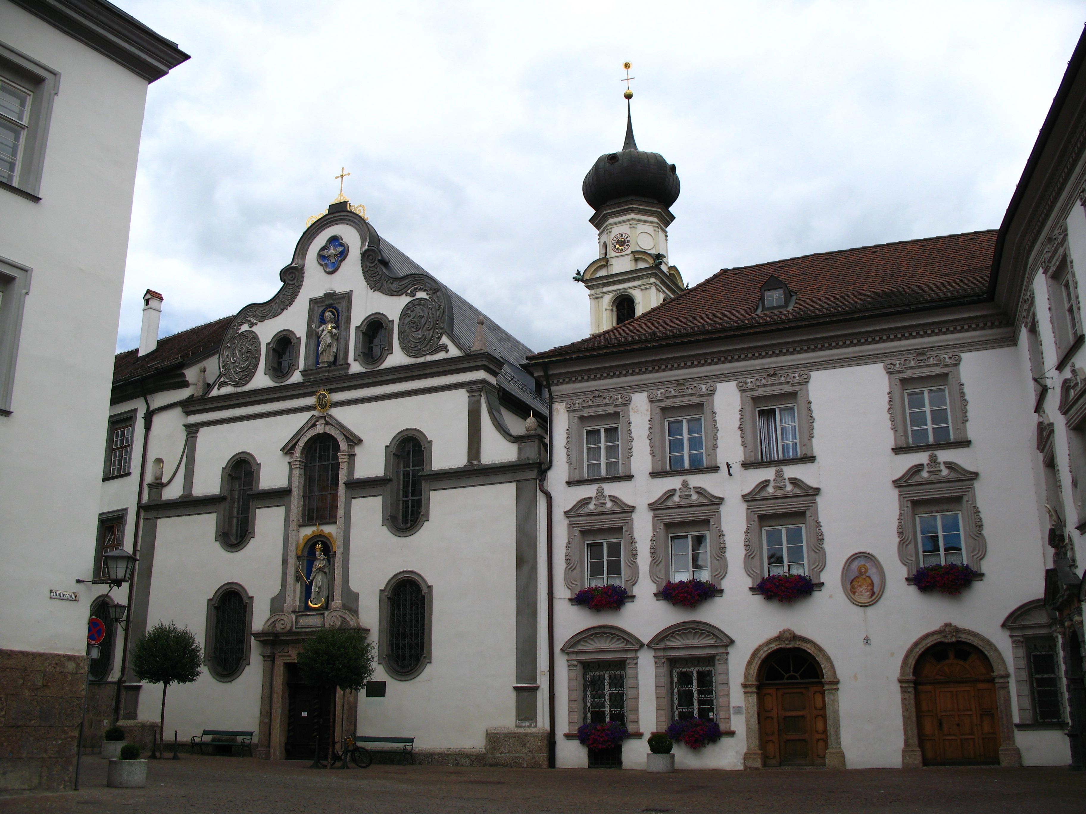 Jesuit Church and the former Ansitz Sparbaregg, Hall in Tirol, Austria Object location47° 16′ 53.49″ N, 11° 30′ 36.09″ E